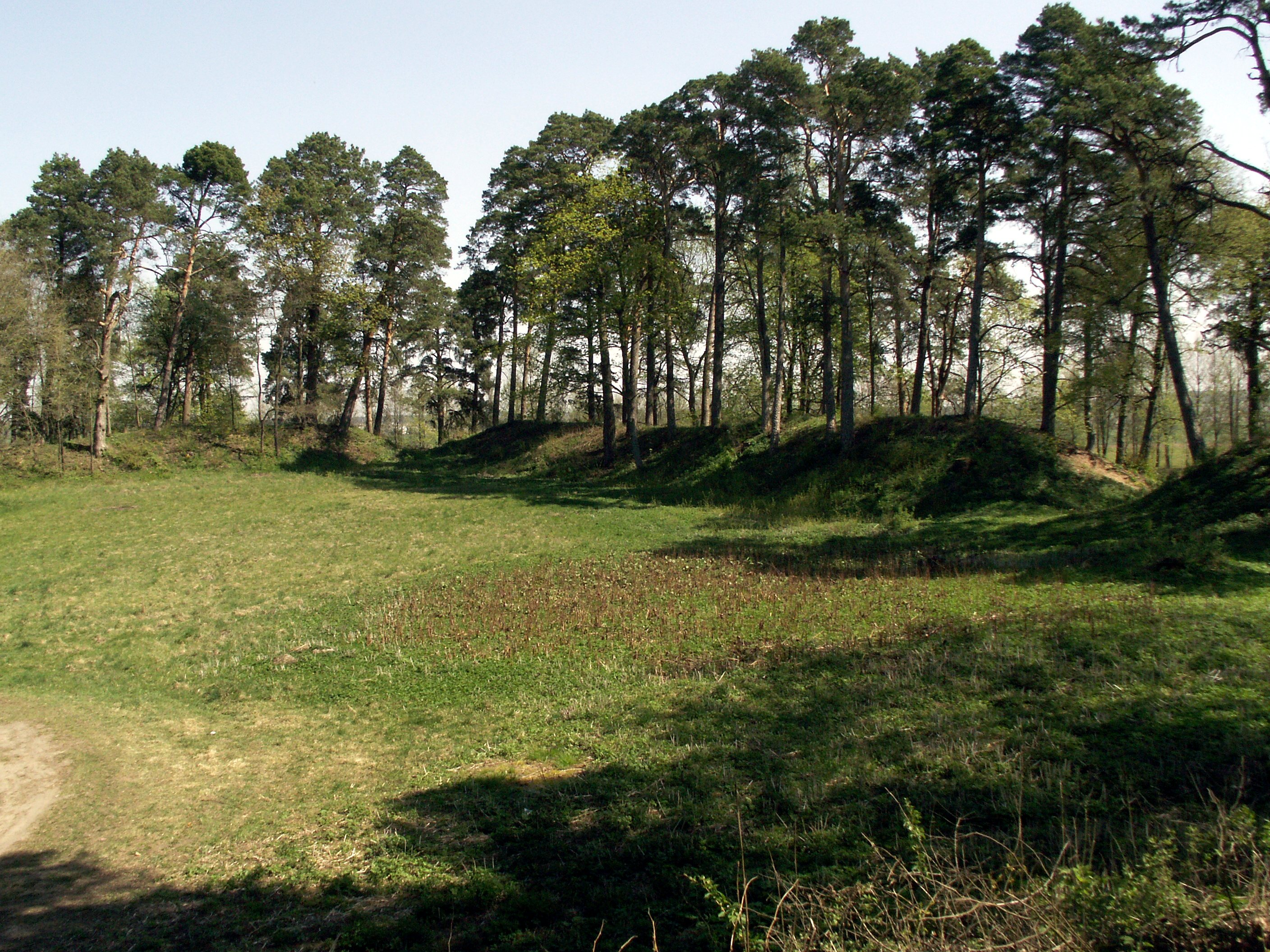 Eišiškės hillfort, Šalčininkai district, Lithuania